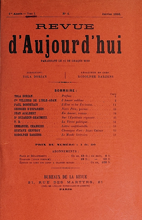 Cover of Revue d'Aujourd'hui, issue 01, Paris: Rue des Martyrs.